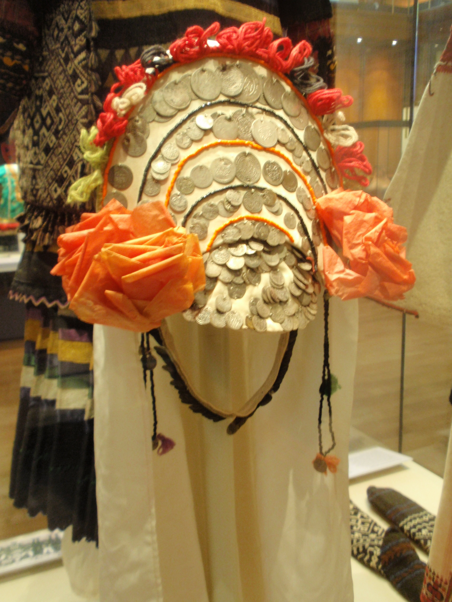 ottoman bridal hairdress with ottoman coins Pleven,Bulgaria early 1900s-British Museum